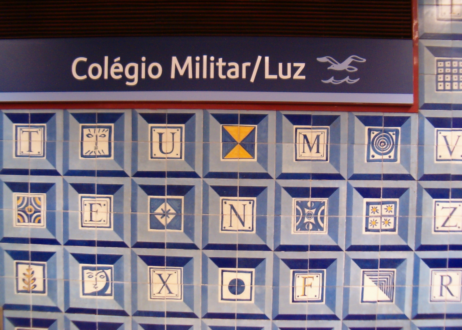 Metro station Colégio Militar/Luz (Lisboa)